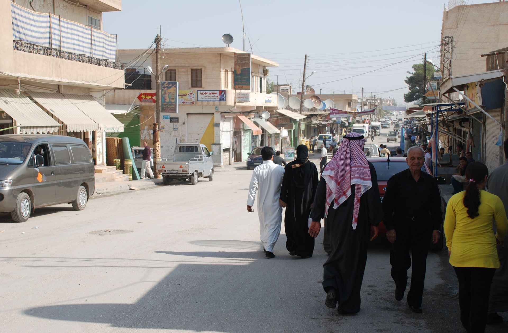 Ras al-Ayn, Syrie, main street